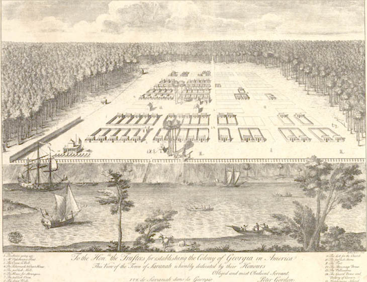 A early (Sometime in the 1700's) drawing of Savannah, Georgia.